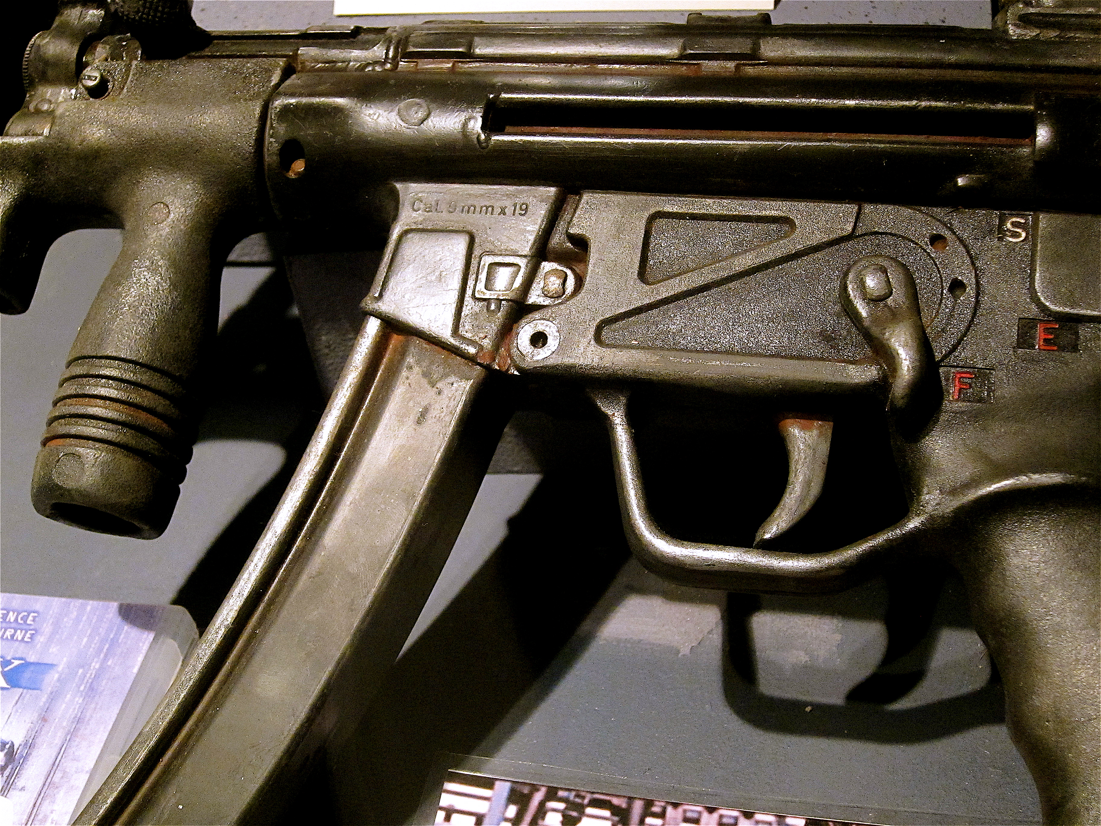 MP-5 submachine gun in polyurethane used by the character Neo (played by Keanu Reeves) in the 1999 film The Matrix, Musée des miniatures et décors de cinéma in Lyon, France.